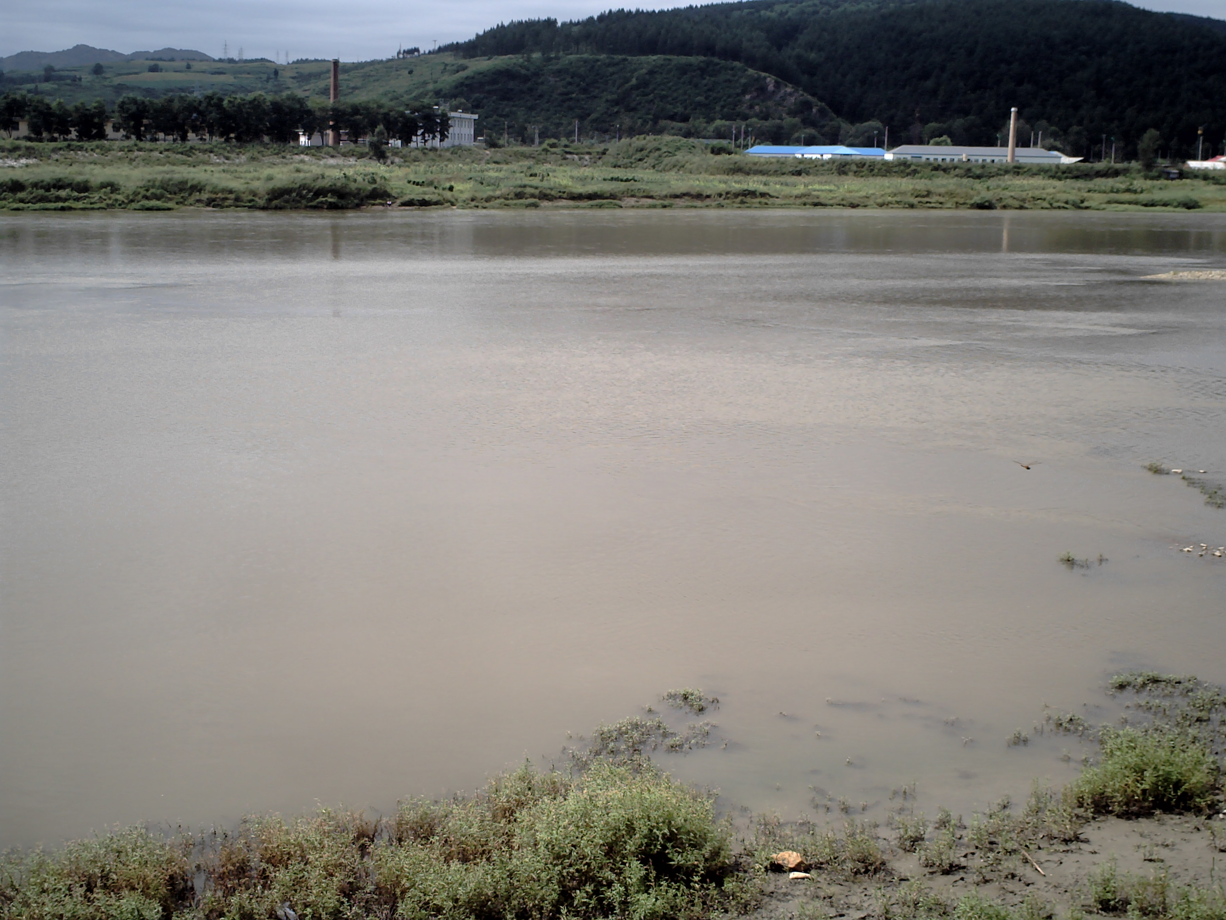 Tumen River Summer (View from China)